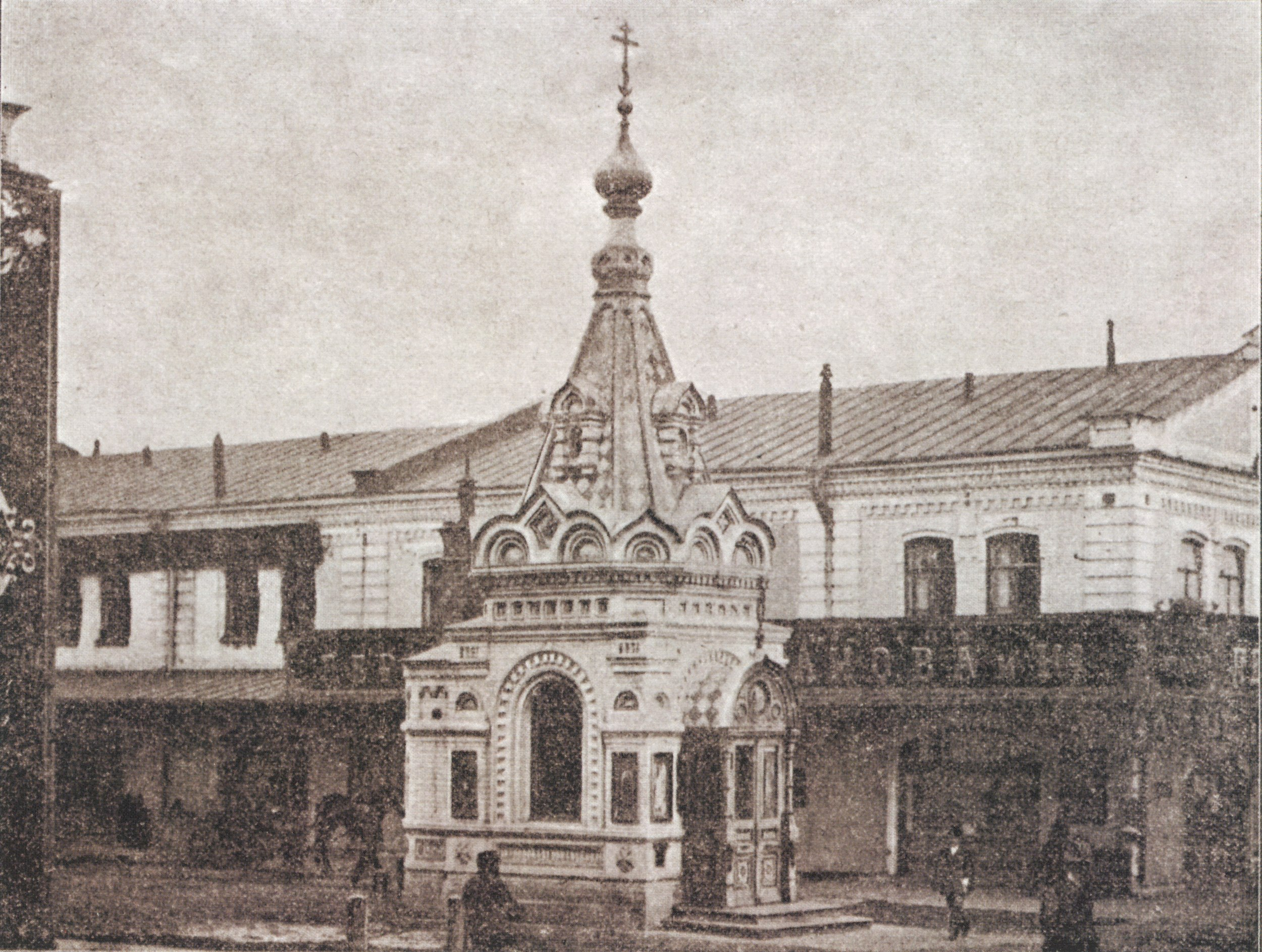 Ilyinskaya Chapel on Black Market in Perm